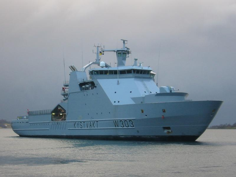 Norwegian Coast Guard vessel KV Svalbard in calm waters sometime in the fall of 2002.